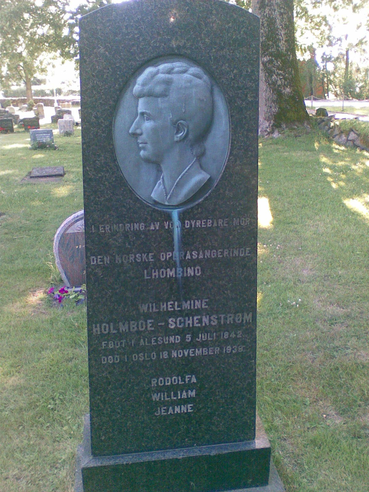 Tombstone of Norwegian opera singer Wilhelmine Holmboe-Schenström (1842-1938). Borre cemetary, Horten municipality, Vestfold county, Norway.